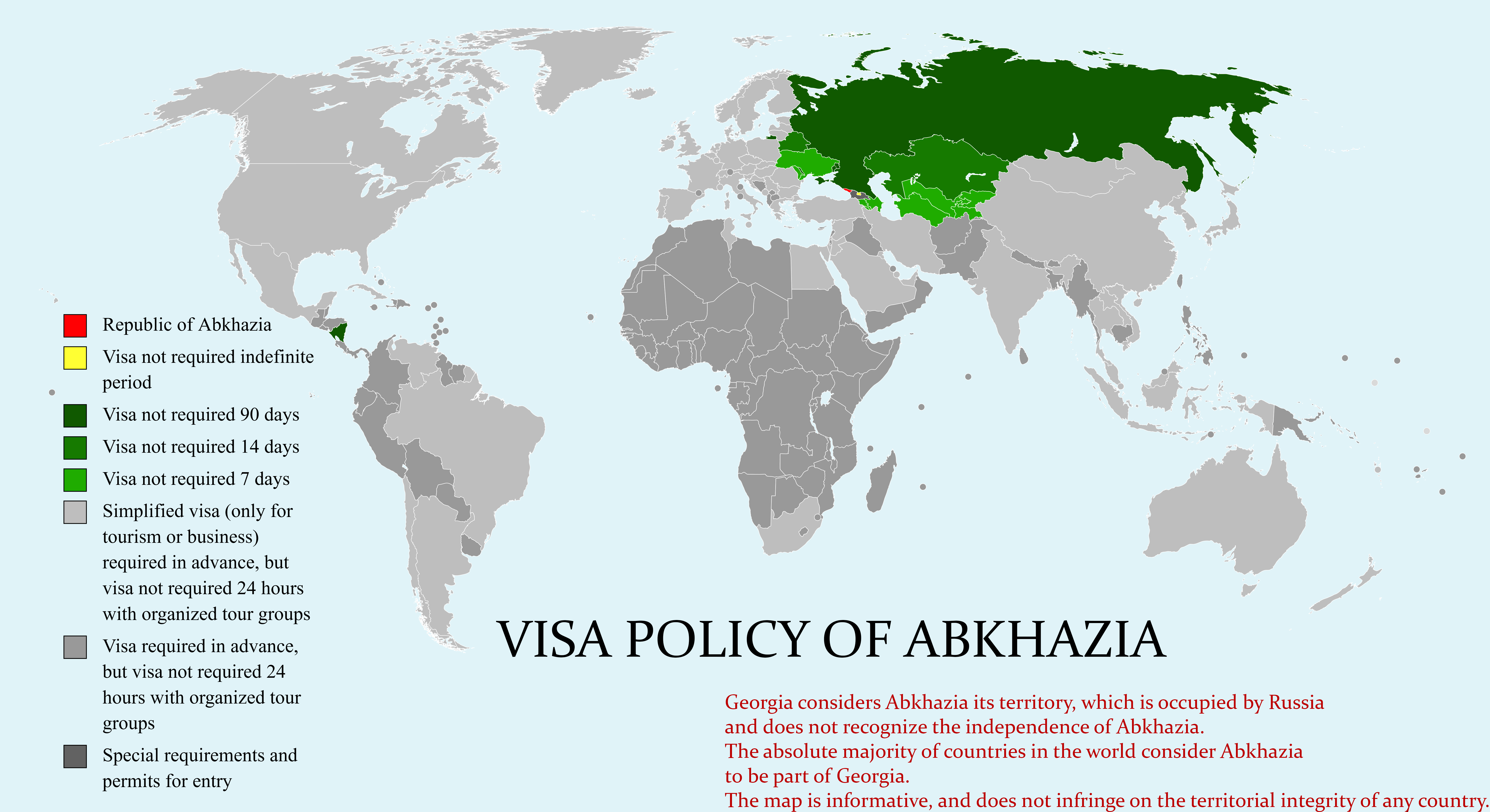 Visa policy of Abkhazia